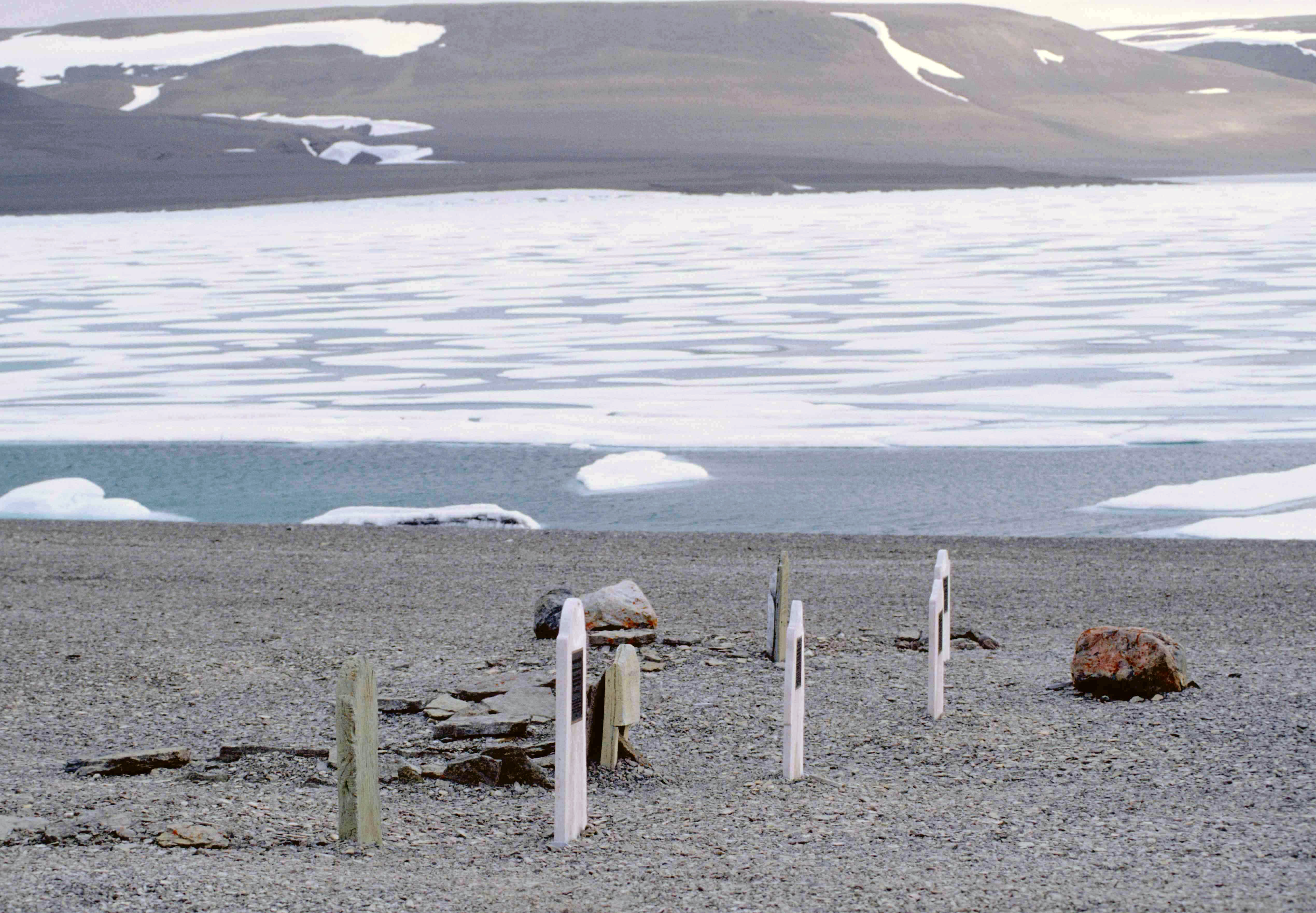 Graves of seamen of John Franklin Expedition from 1845 on Beechey Island